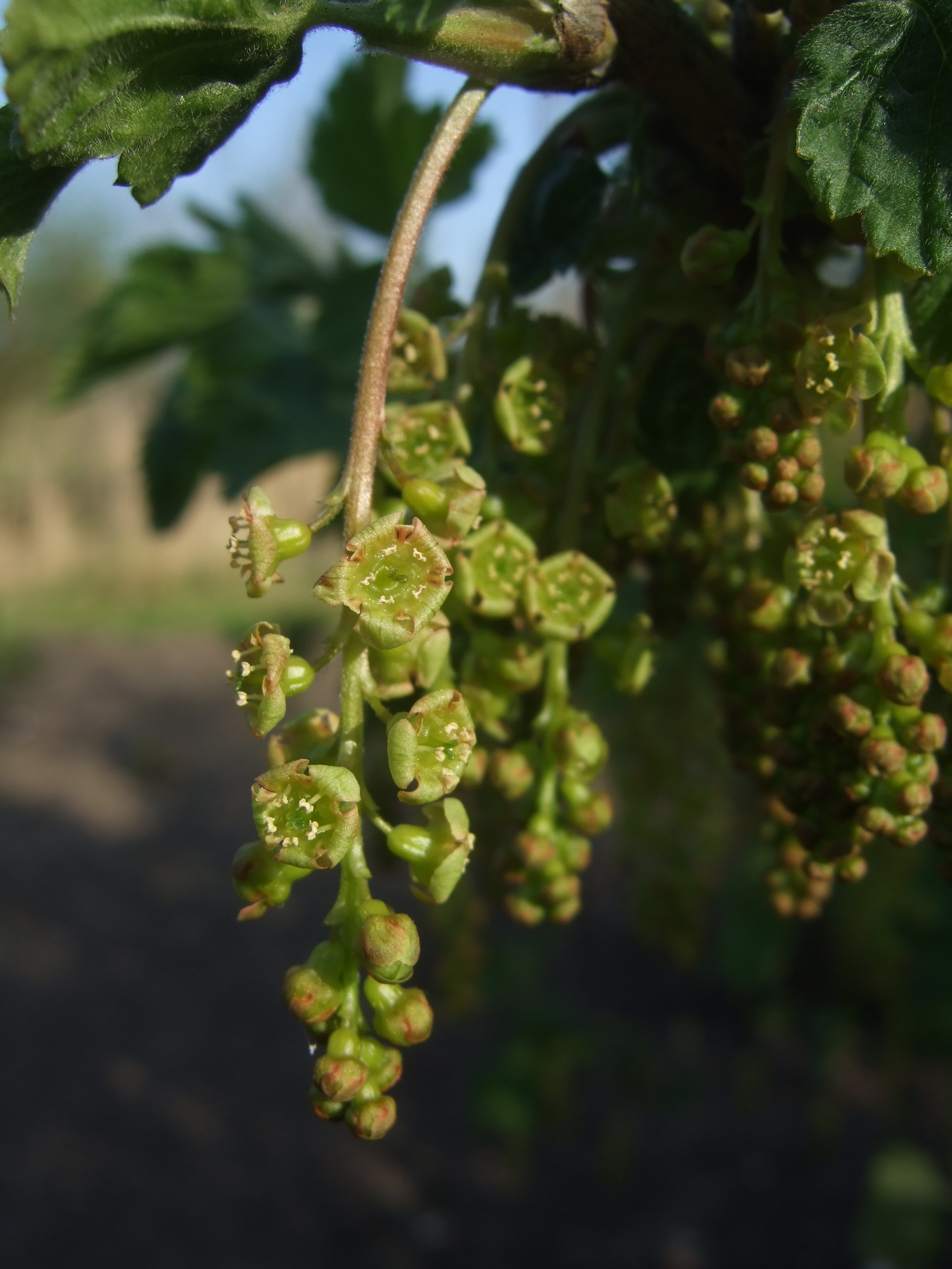 Redcurrant flowers in Kirchwerder, Hamburg.